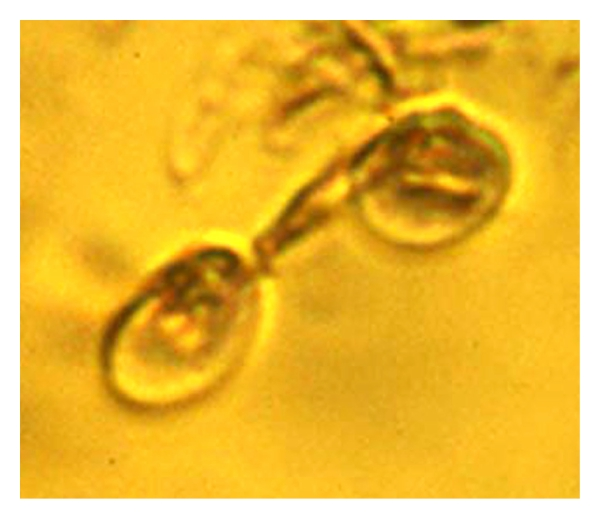 Short procyclic promastigotes of Paleoleishmania proterus developing in the midgut of the Early Cretaceous sand fly Palaeomyia burmitis